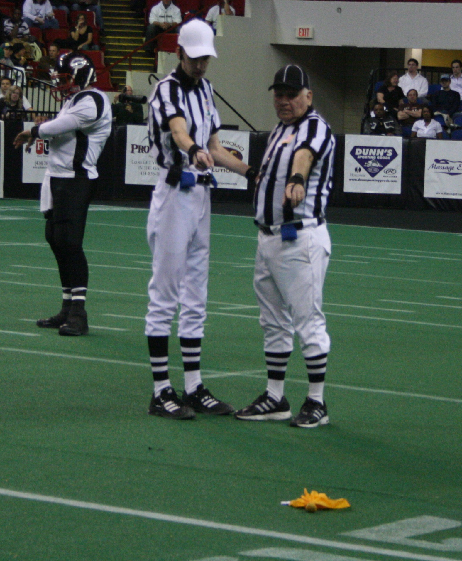 Original Description: Yes, that is a flag. How did it get there? What do we do about it?Two Arena Football League referees.